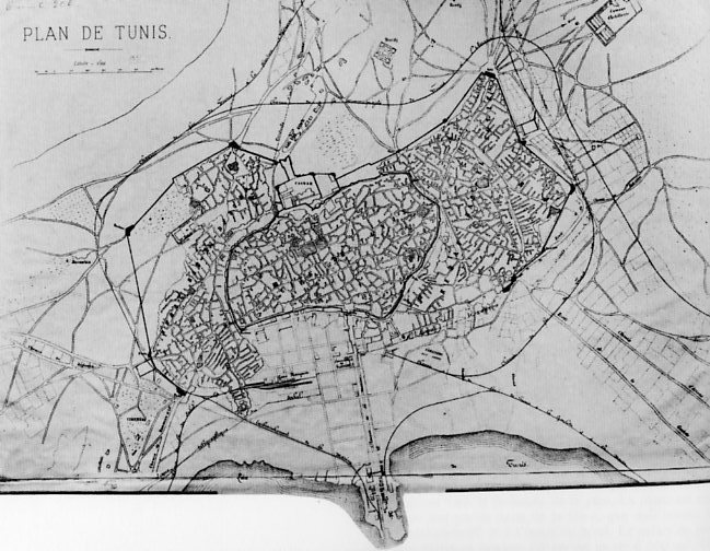 Map of Tunis, 1881.